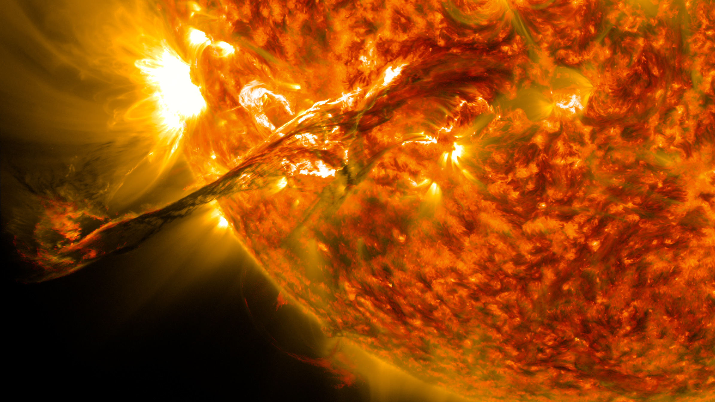 On August 31, 2012 a long filament of solar material that had been hovering in the sun's atmosphere, the corona, erupted out into space at 4:36 p.m. EDT. The coronal mass ejection, or CME, traveled at over 900 miles per second. The CME did not travel directly toward Earth, but did connect with Earth's magnetic environment, or magnetosphere, with a glancing blow. causing aurora to appear on the night of Monday, September 3. This is a lighten blended version of the 304 and 171 angstrom wavelengths. Cropped.